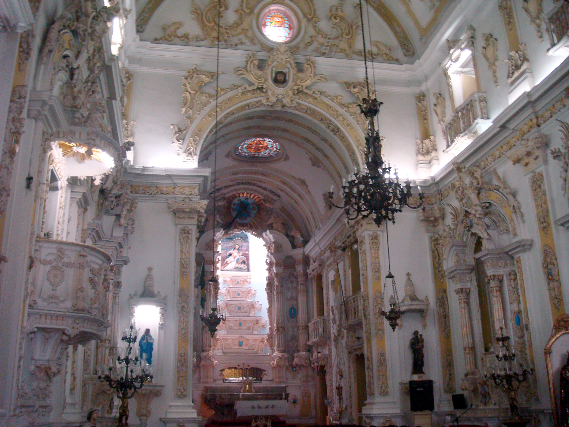 Interior of the Church of Santa Cruz dos Militares in Rio de Janeiro, Brazil